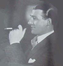 Photograph of the author William Fawcett, taken in 1931